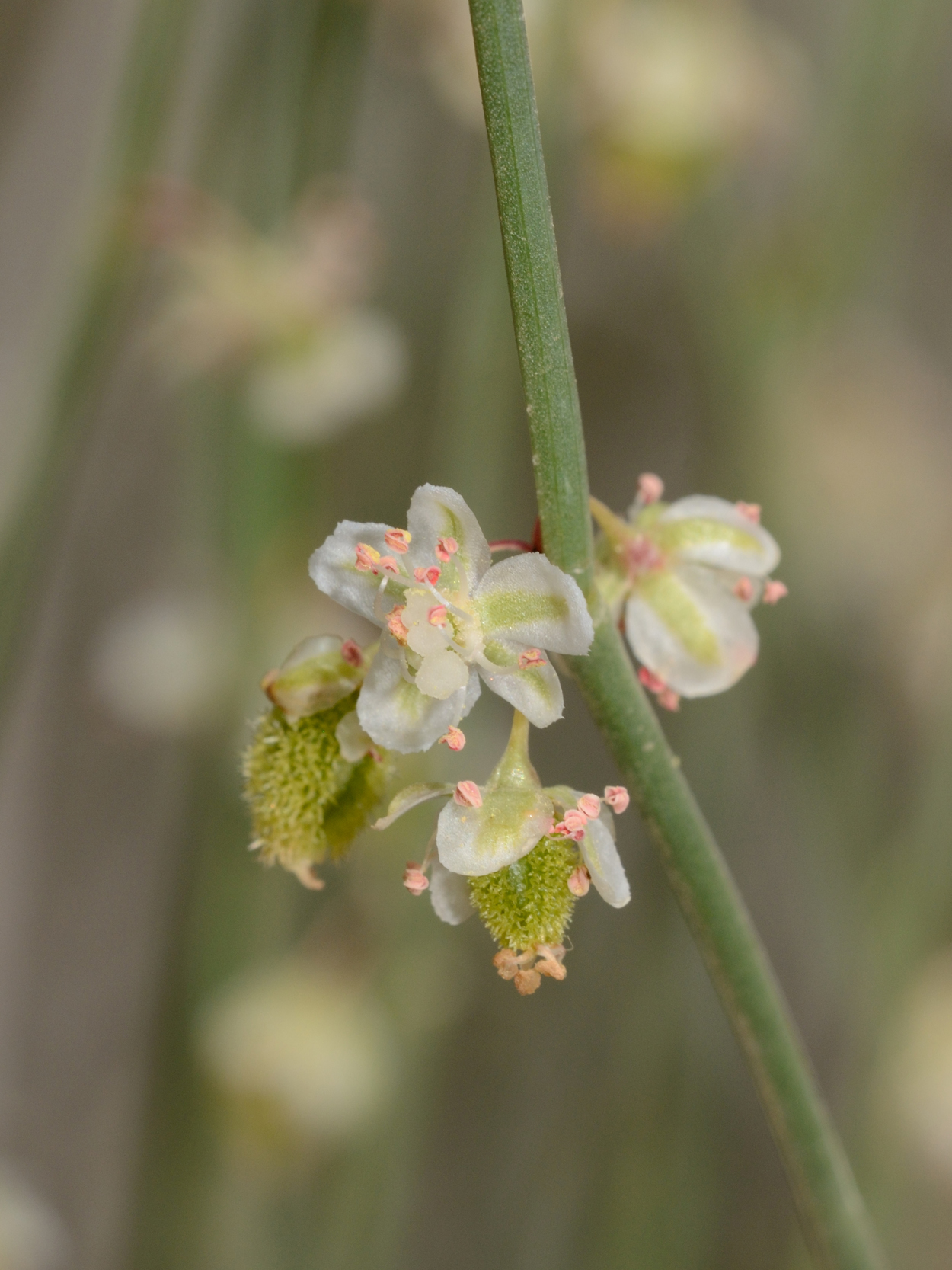 Calligonum comosum L'Hér., Nahal Shezaf, Arava Valley, Israel, March 7, 2014.